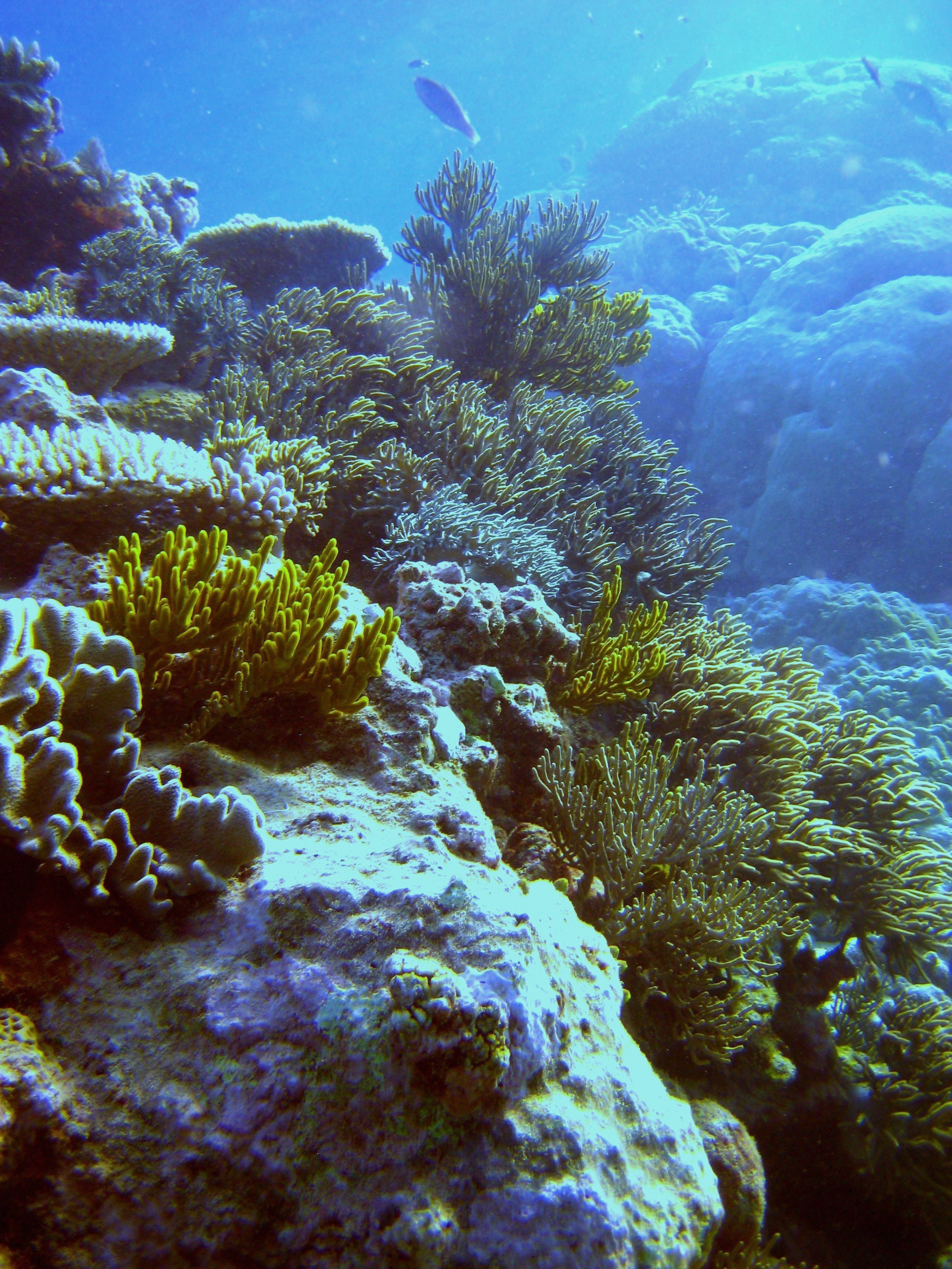 Australia, Great Barrier Reef.